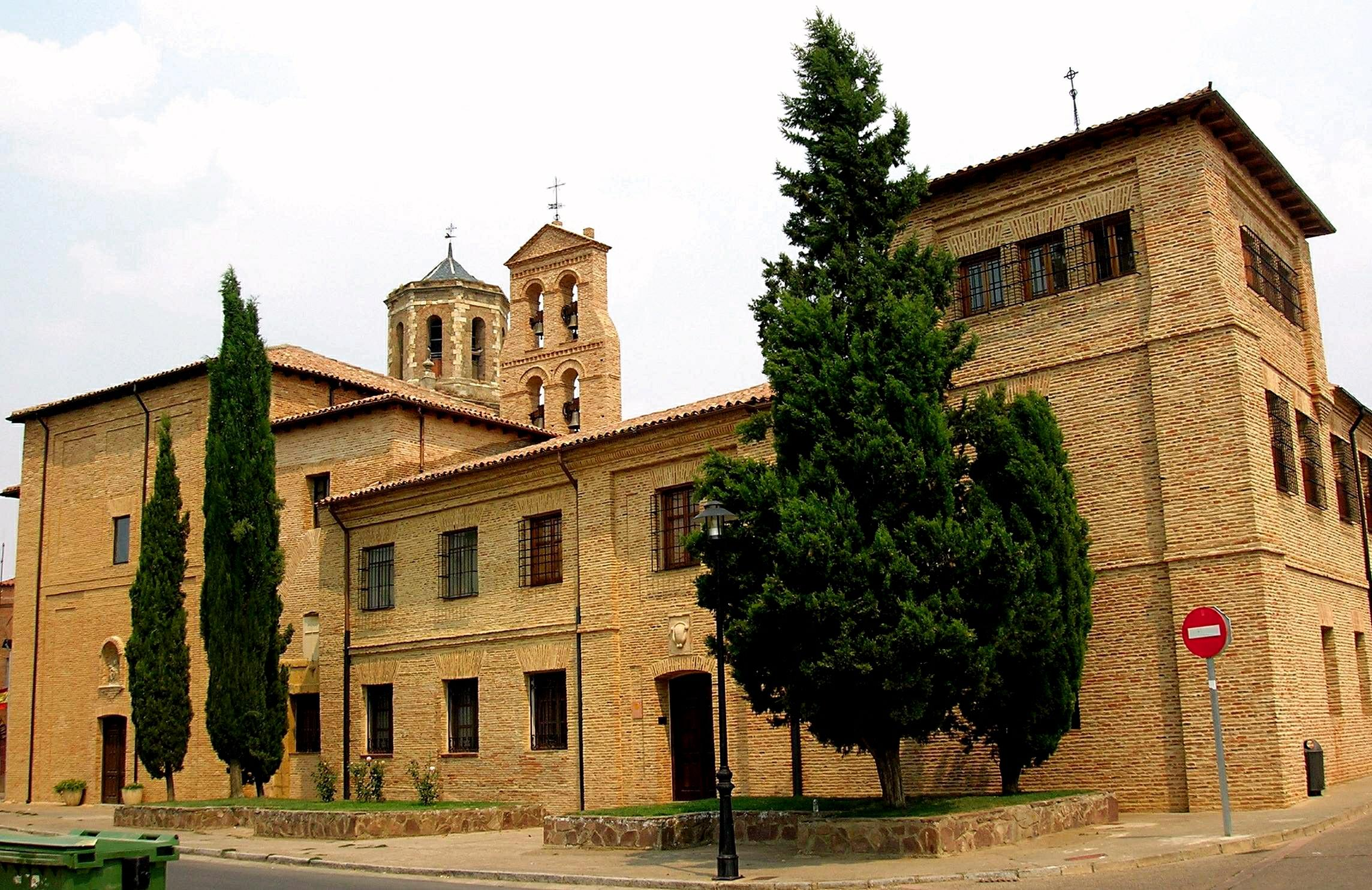 Monasterio de Santa Cruz, de monjas benedictinas, en Sahagún (León, España)